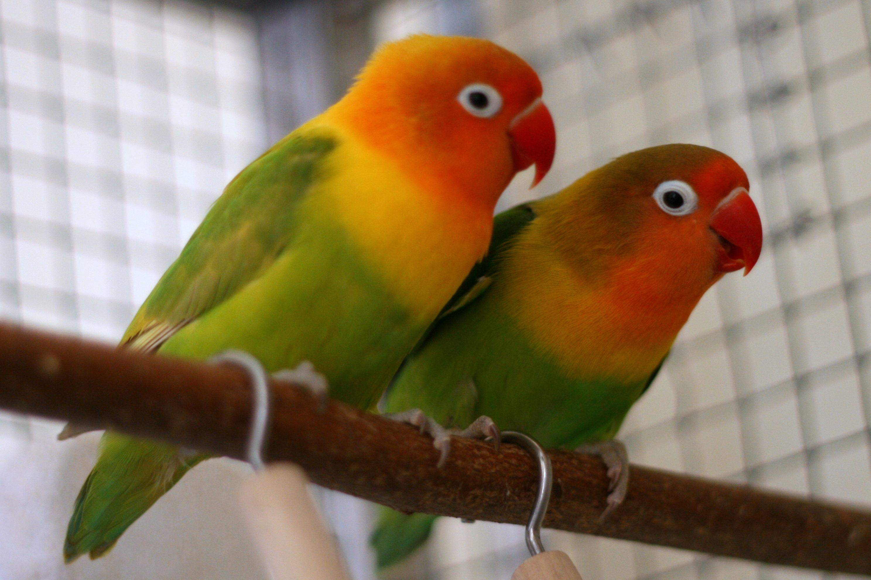 Two Fischer's Lovebirds, (Agapornis fischeri). Pets on a perch.